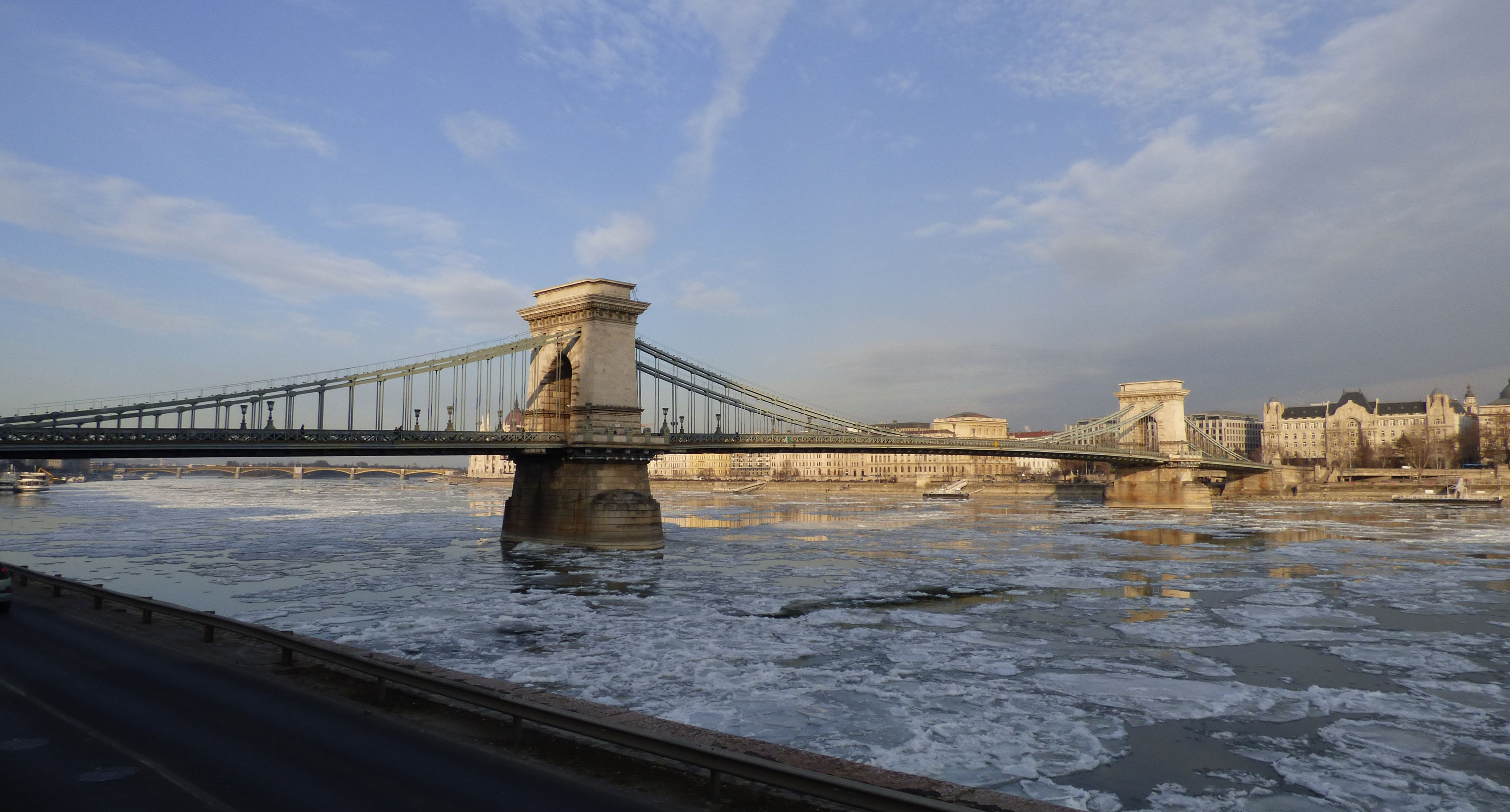 Széchenyi Chain Bridge and ice on the Danube as viewed from a nearby tram stop